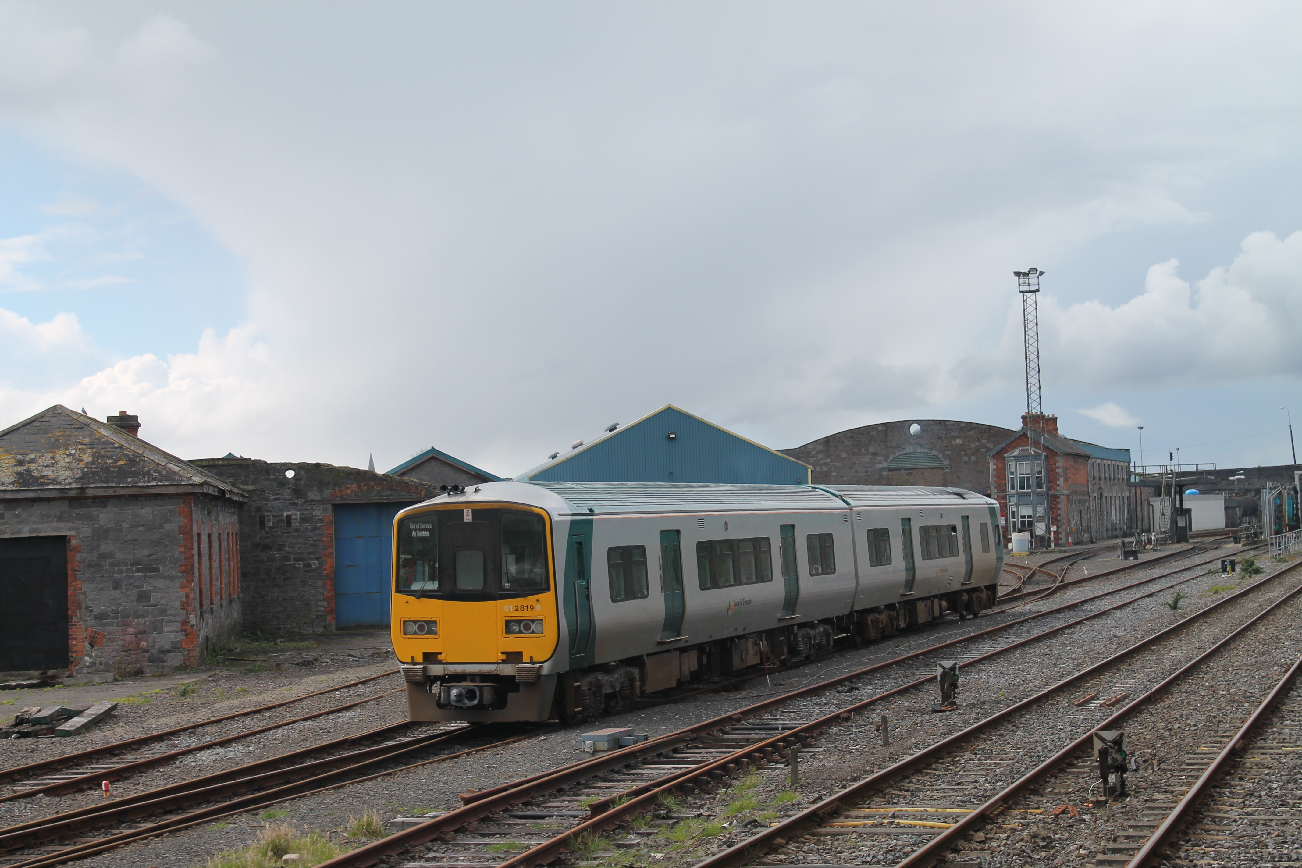 2800 Class at Limerick. 09/04/2016